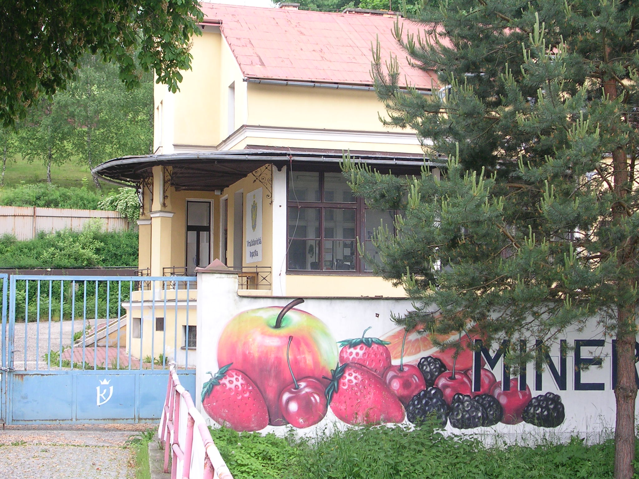 Vratislavice nad Nisou. The Czech Republic.